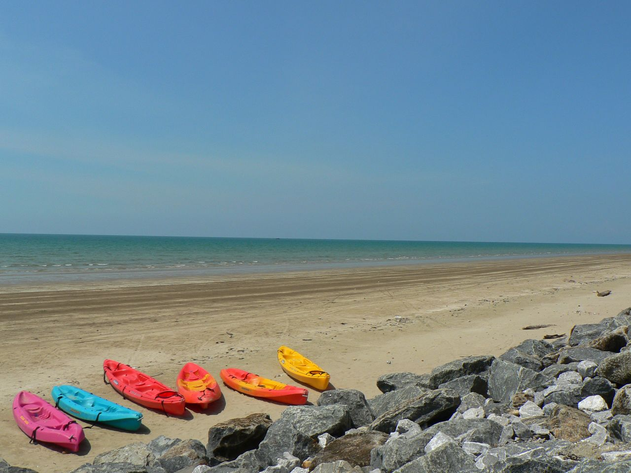 Sematan Beach, Sarawak